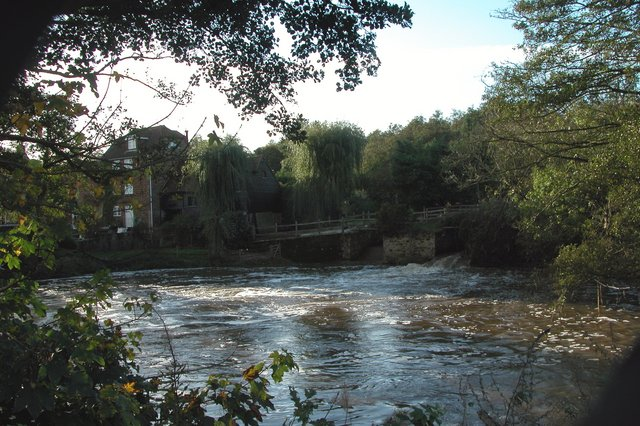 Terwick Mill.